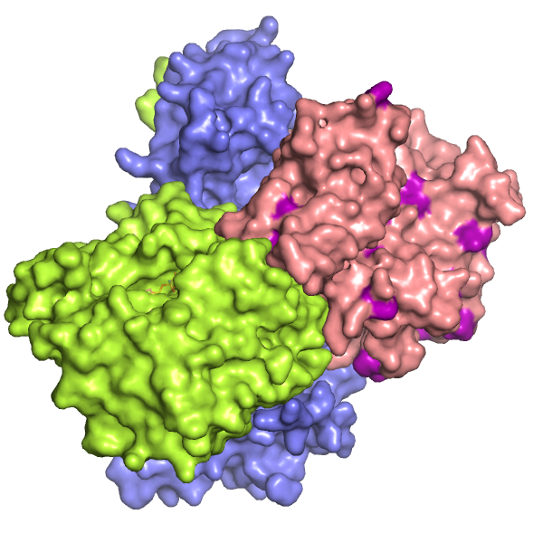 Structure of the LKB1 (pink)- STRAD (green)- MO25 (blue) complex. Cancer causing mutations present on the LKB1 surface are coloured purple.